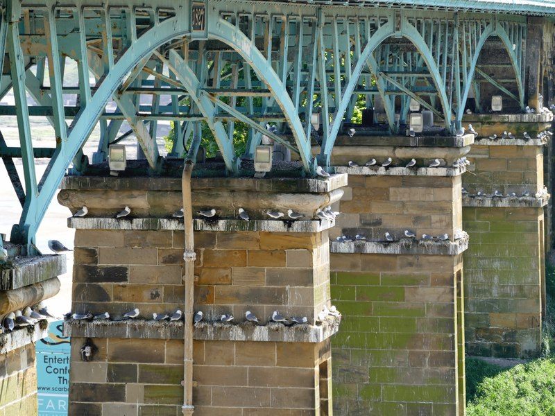 High rise living for Scarborough's seagulls